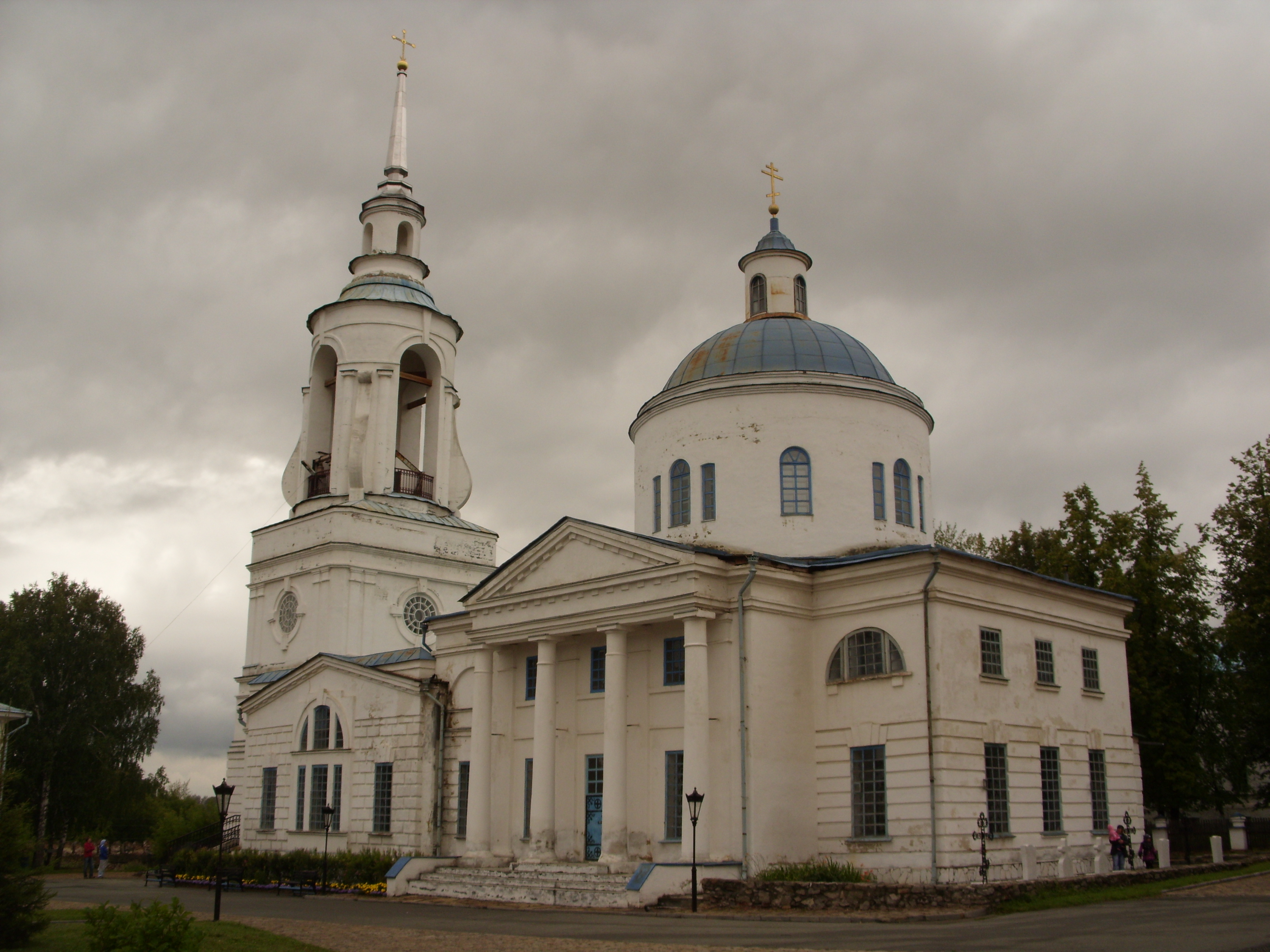 Church of the Transfiguration, Verkhoturie